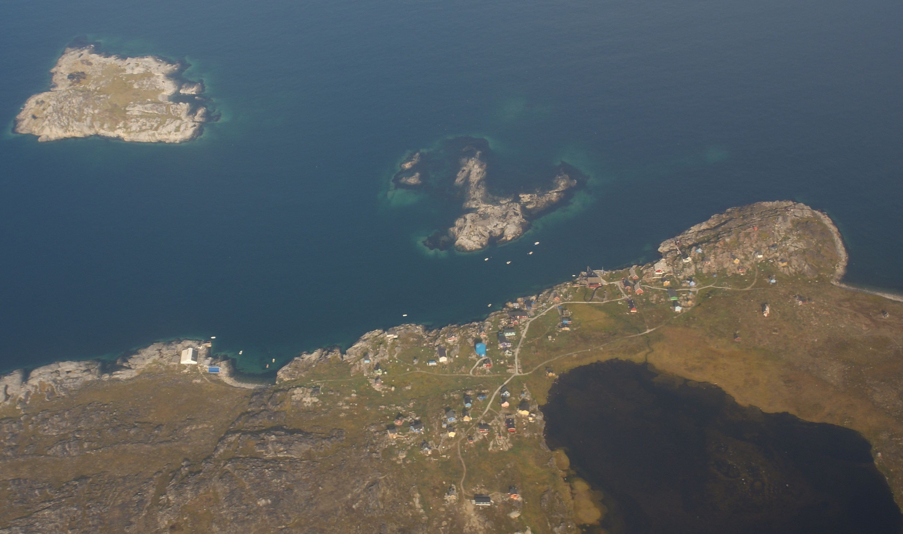 Aerial view of Ilimanaq, Disko Bay, Greenland. Photographed from the Air Greenland de Havilland Canada Dash-7 during the Ilulissat-Kangerlussuaq flight.